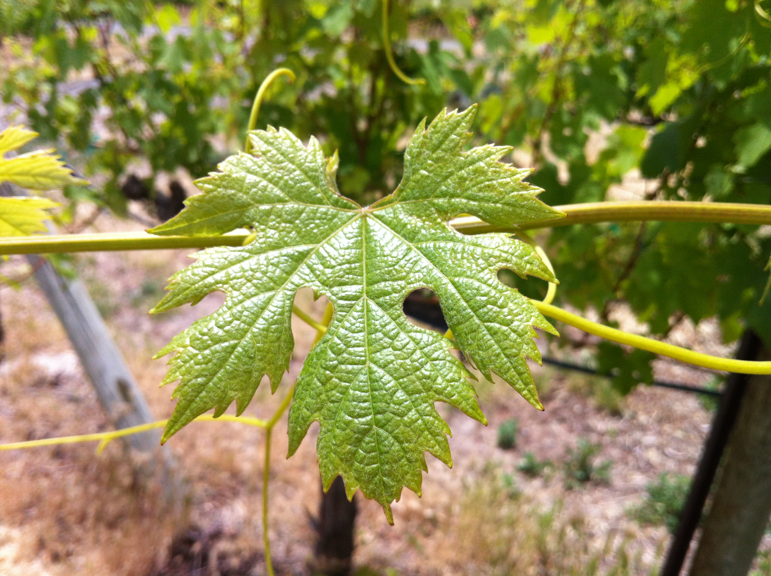 Close up of Nebbiolo leaf